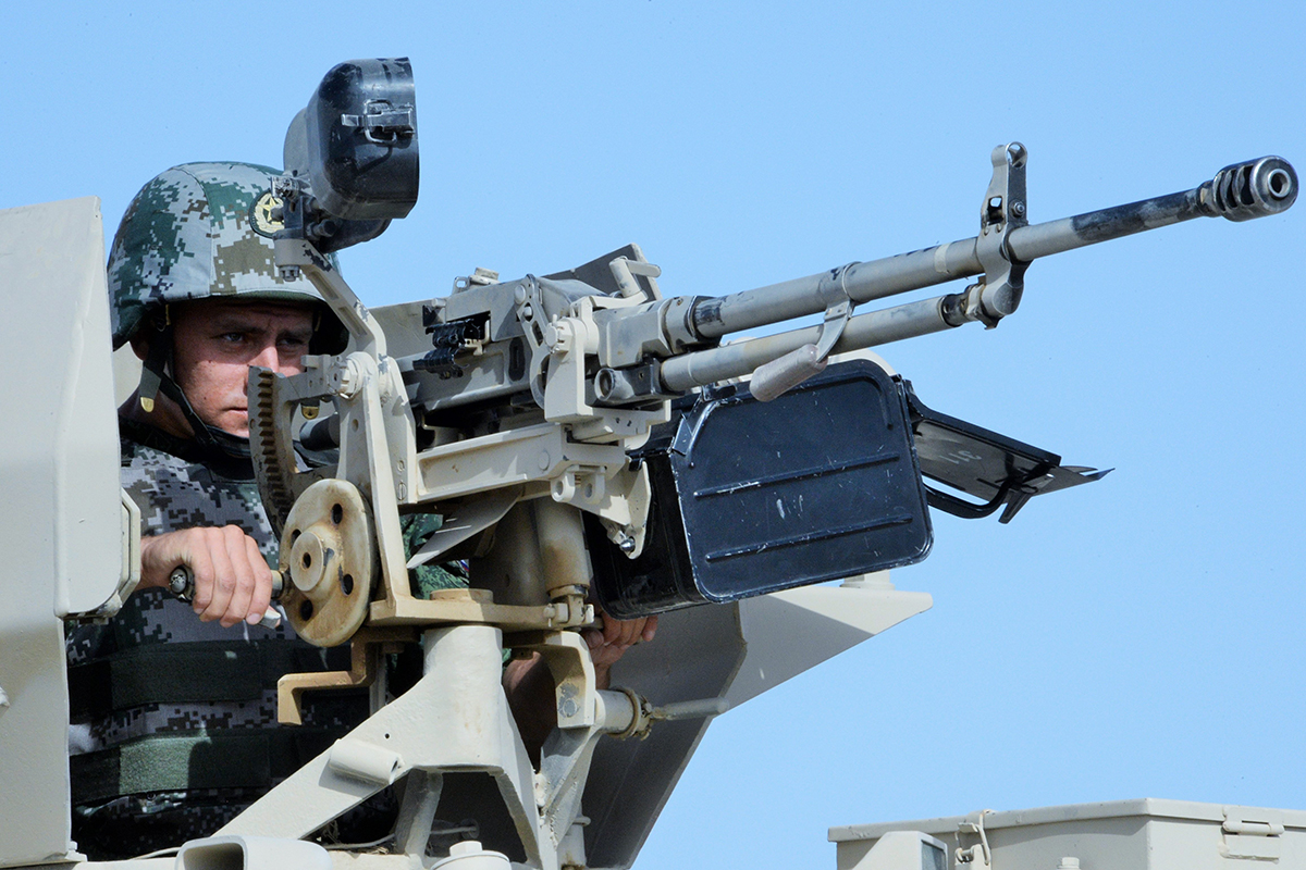 W85 12.7mm machin gun.